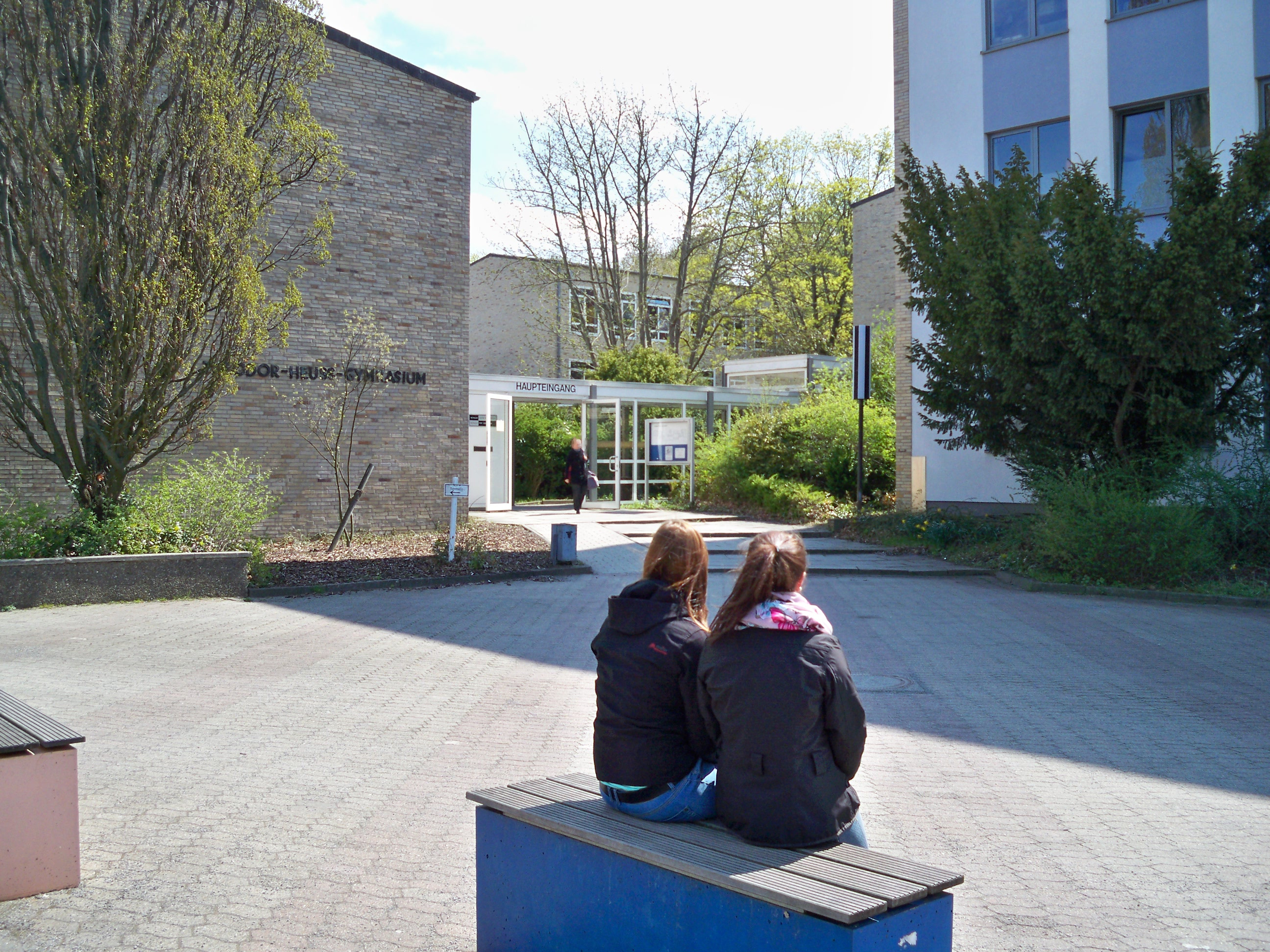 Theodor-Heuss-Gymnasium, Wolfsburg, Lower Saxony, main entrance